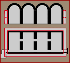 Willis Magazine diagram. 18th century Magazine in Gibraltar